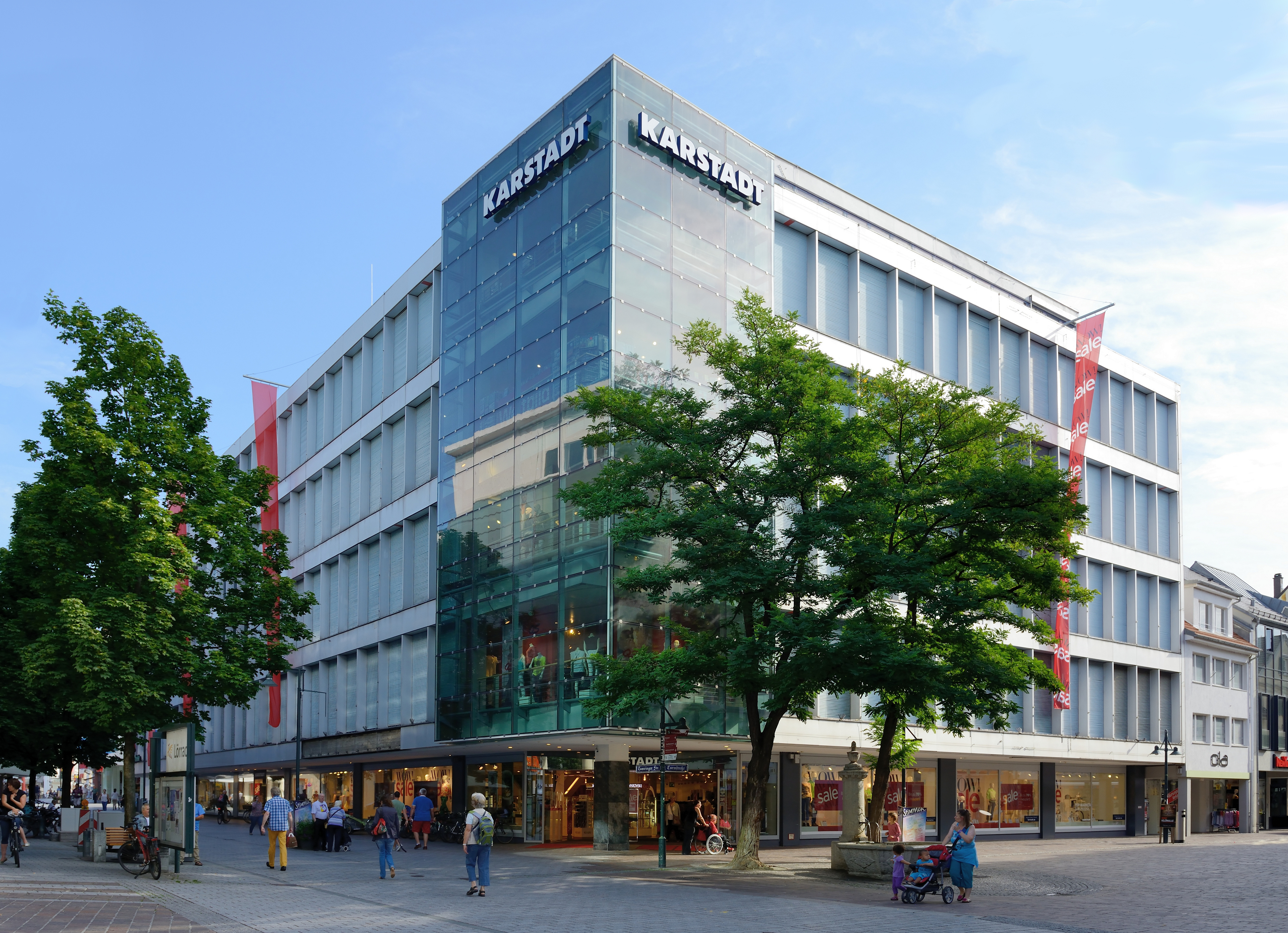 Lörrach: building of "Karstadt" department store